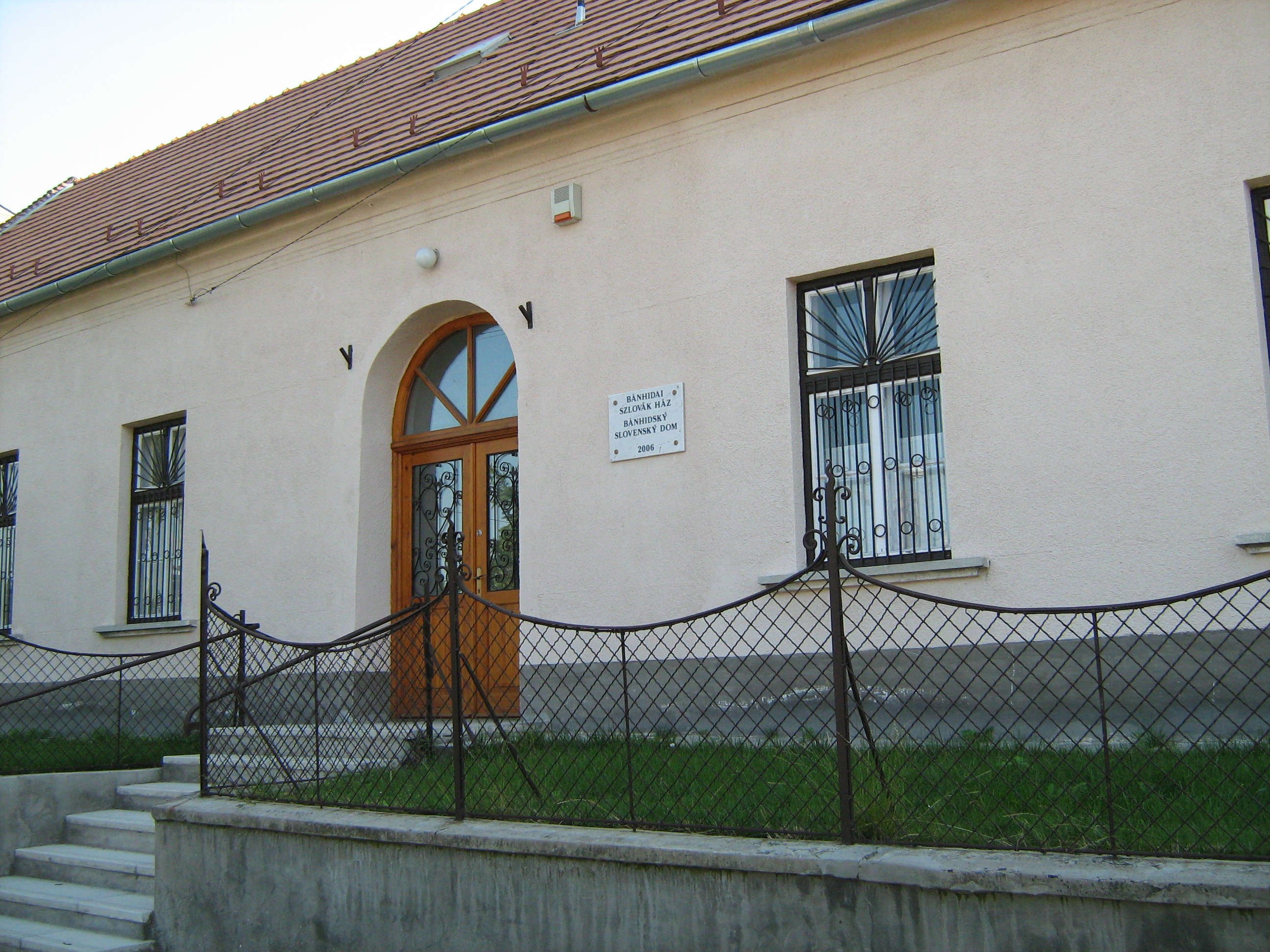 Slovak provincial house in the Bánhida (this is part of Tatabánya) Founded 2006